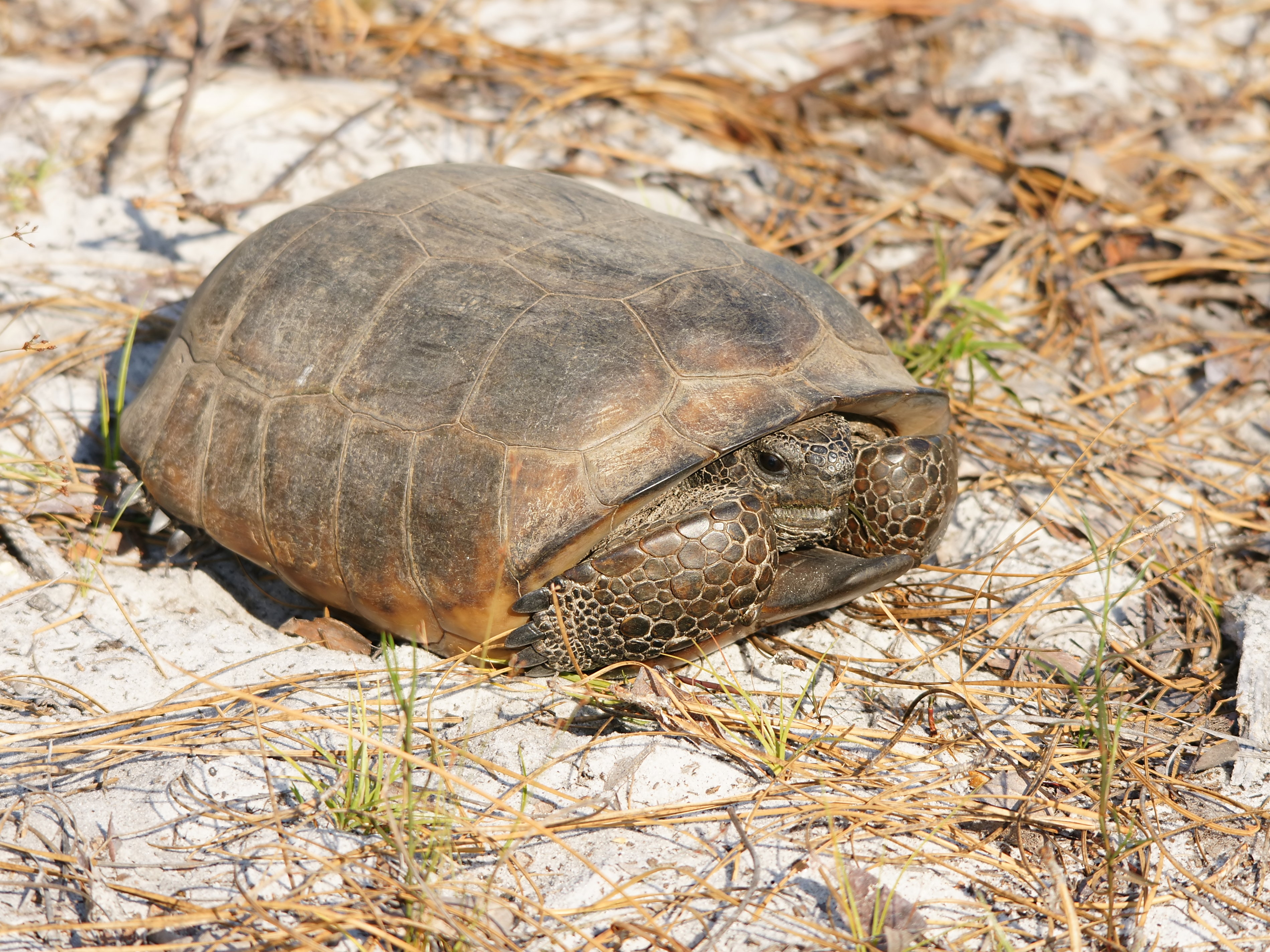 Gopher tortoise at St. Sebastian River Preserve State Park in Indian River County, Florida, U.S.A.